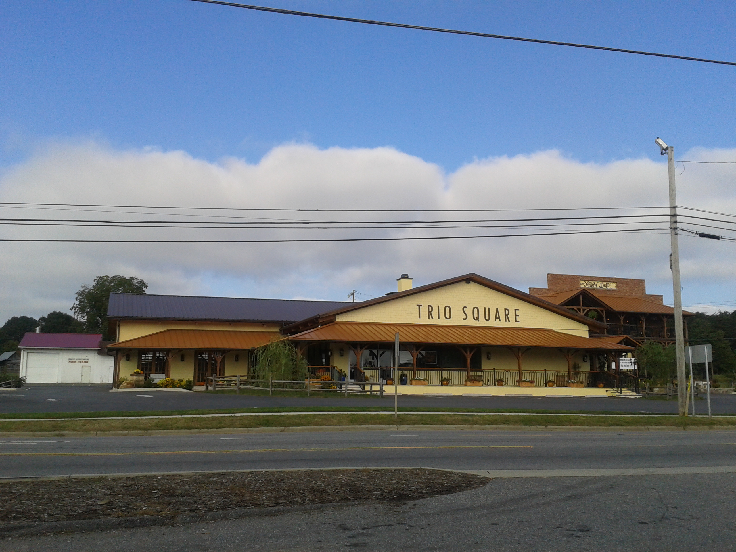 Hiddenite, North Carolina